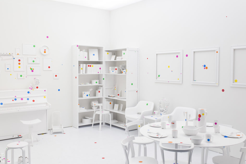 Yayoi Kusama's Obliteration Room was inspired by the earlier Infinity Mirror Room that she created in 2015.